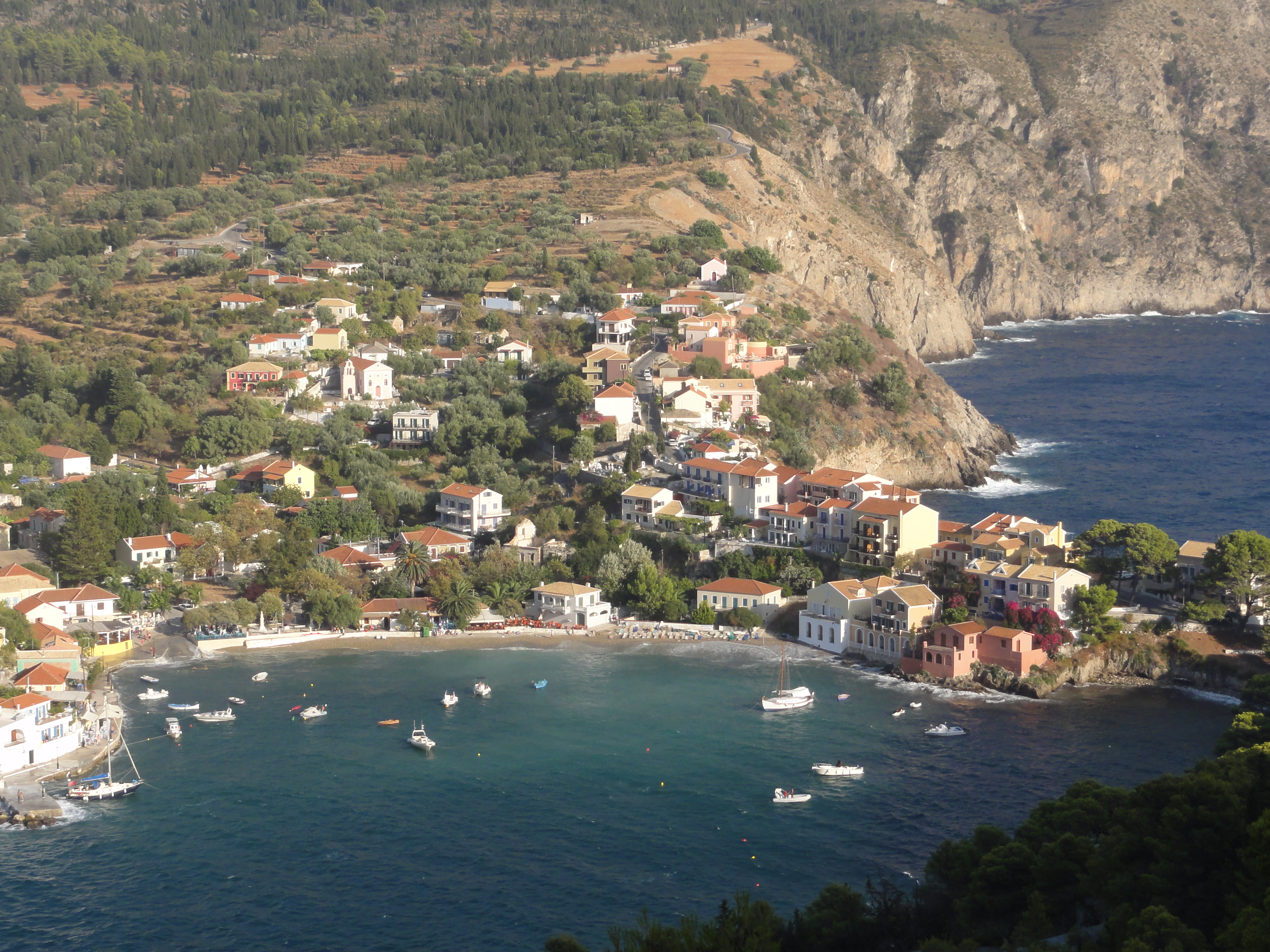 Photographs taken in Kefalonia.